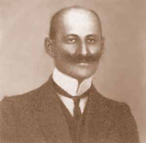 Image of Fyodor Golovin (1866 - 1912), Russian politician, Chairman of the Second Duma in 1907.